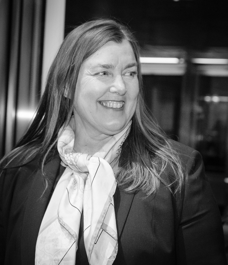 A guest (Elin Rodum Agdestein, H) at Governor Øystein Olsen's annual address in February 2018